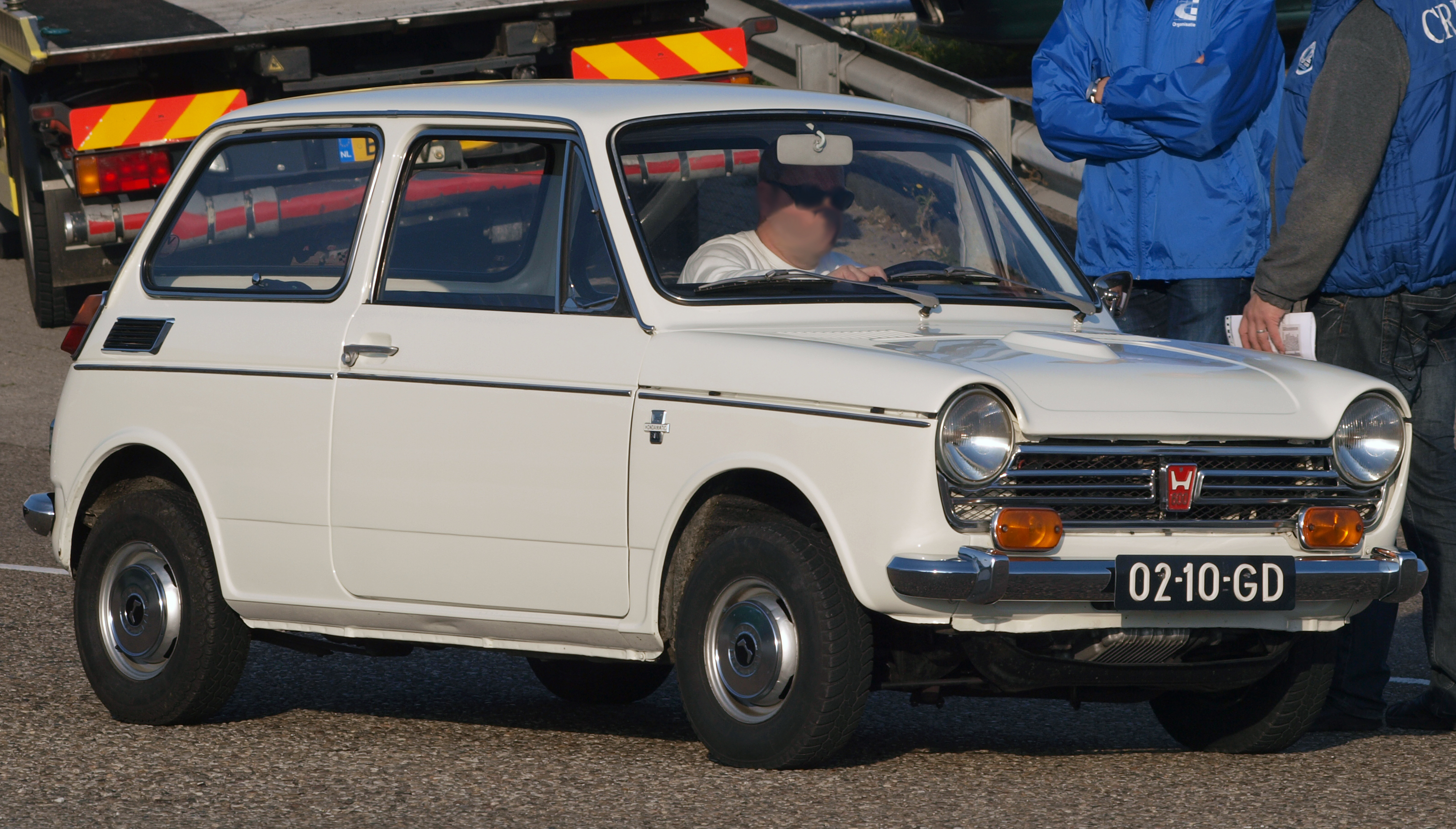 Photographed at the Nationaal Oldtimer Festival Zandvoort 2009, The Netherlands. OLYMPUS DIGITAL CAMERA